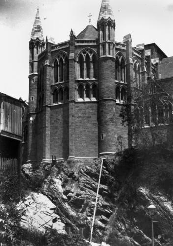 Back view of St John's Cathedral taken from the cutting in Adelaide Street, Brisbane in about 1910. Designed by the English architect J L Pearson, the foundation stone was laid by the Duke of York on 22 May 1901. Work commenced in 1906 and the half completed building was consecrated on 28 October 1910. In the year 2004 the cathedral still remains unfinished.